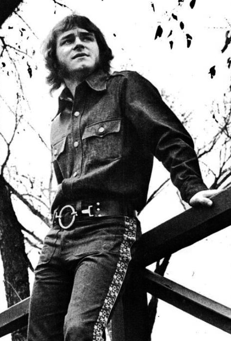 Trade ad for Joey Gregorash's single "Tomorrow Tomorrow". To better adapt it to his respective Wikipedia article, the ad was cropped and cleaned in a graphics editing program. The original can be viewed at the source below.